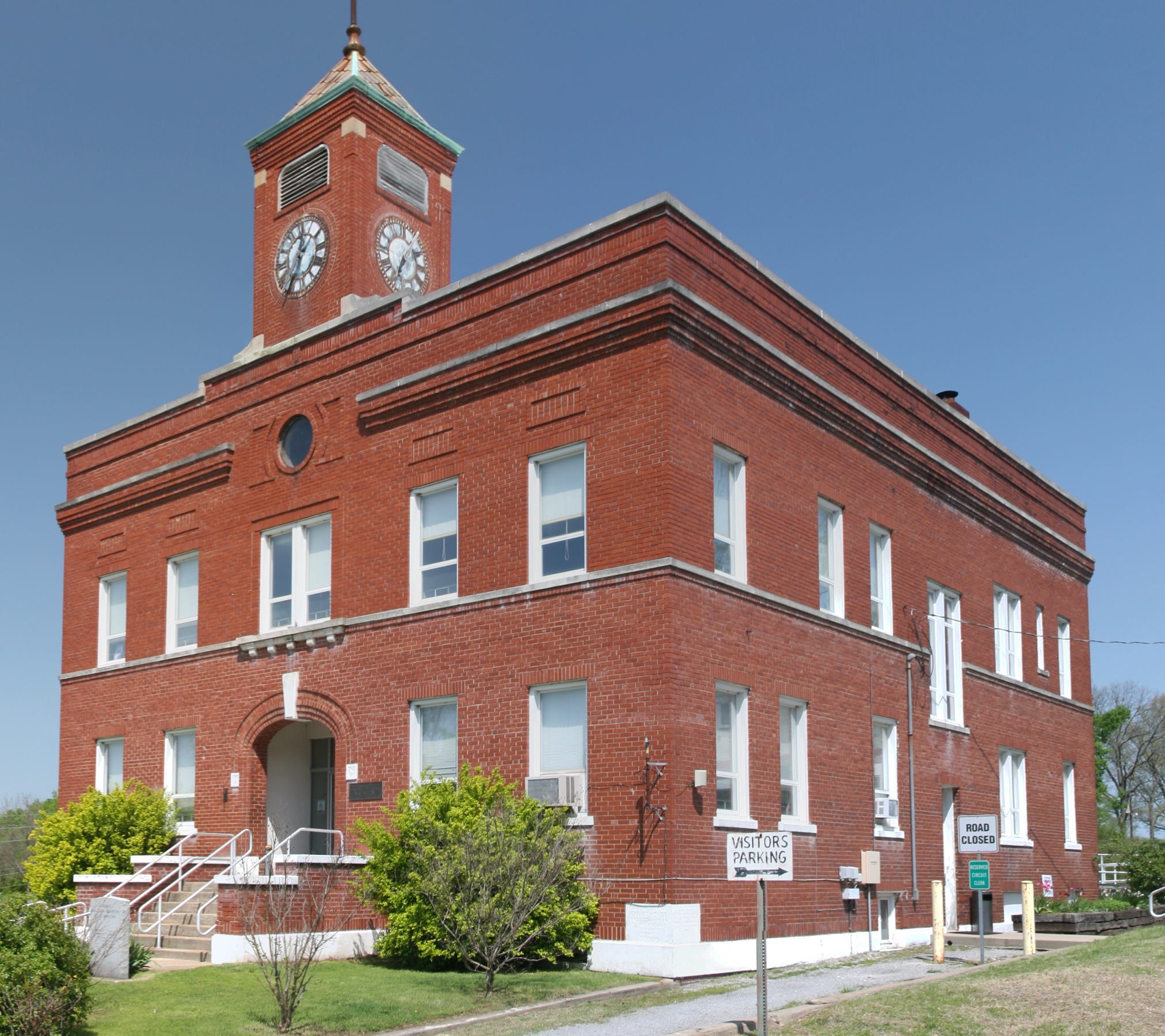 County courthouse in Elizabethtown, Illinois This image was created with Hugin.